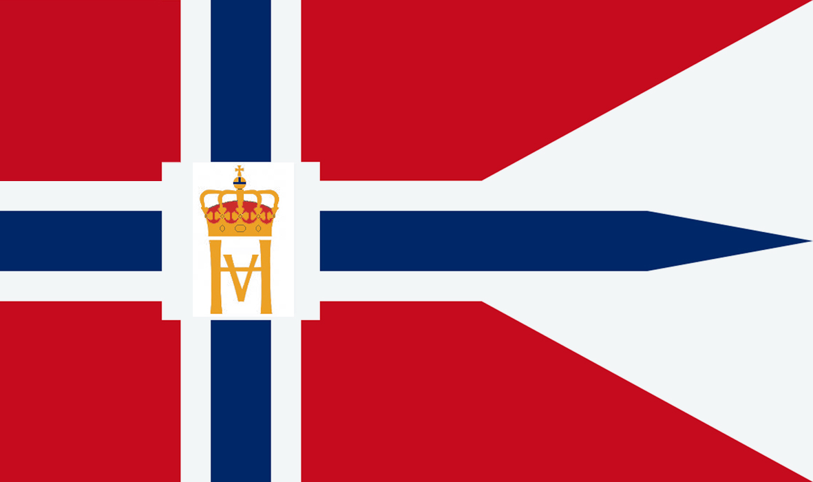 Flag of the Kongelig Norsk Seilforening (Royal Norwegian Yacht Club), granted by King Haakon II in Council on 27 January 1906. The naval ensign of Norway with the royal cipher in a white central field. Successive kings have granted members of the yacht club the right to fly ensigns with their respective ciphers.